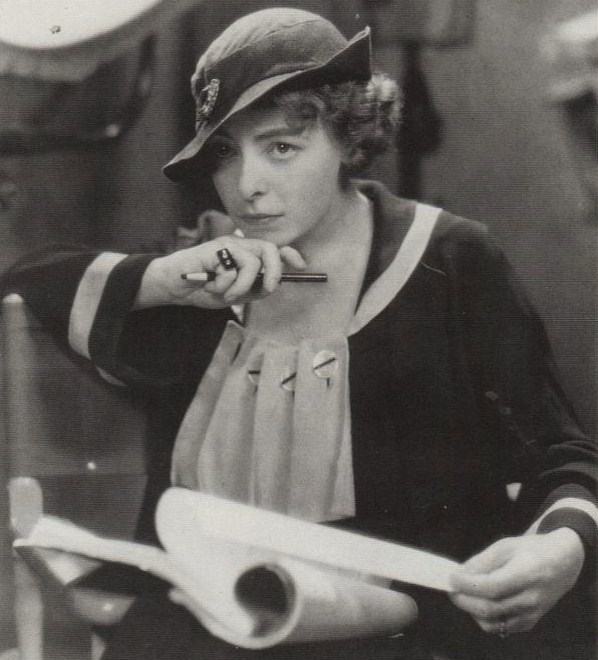 Dorothy Davenport on the set of Human Wreckage (1923) - publicity still (cropped : see source)